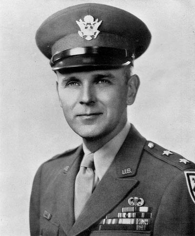 LTG Maxwell Taylor, Superintendent of USMA 1945